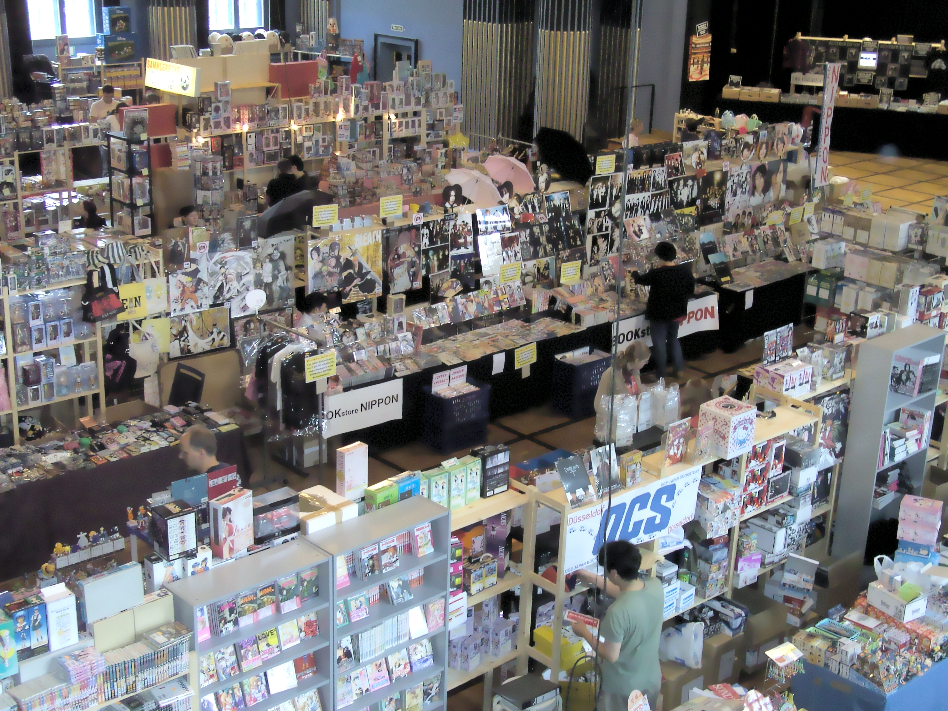 Salesroom of the Connichi 2007 in the Blauer Saal in the Kongress Palais Kassel.